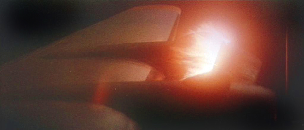 Screenshot of a DC-4 engine fire from the film The High and the Mighty.